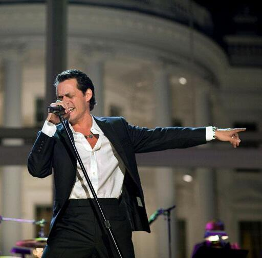 Singer Marc Anthony performs at the "In Performance at the White House: Fiesta Latina," a concert celebrating Hispanic musical heritage held on the South Lawn, Oct. 13, 2009.